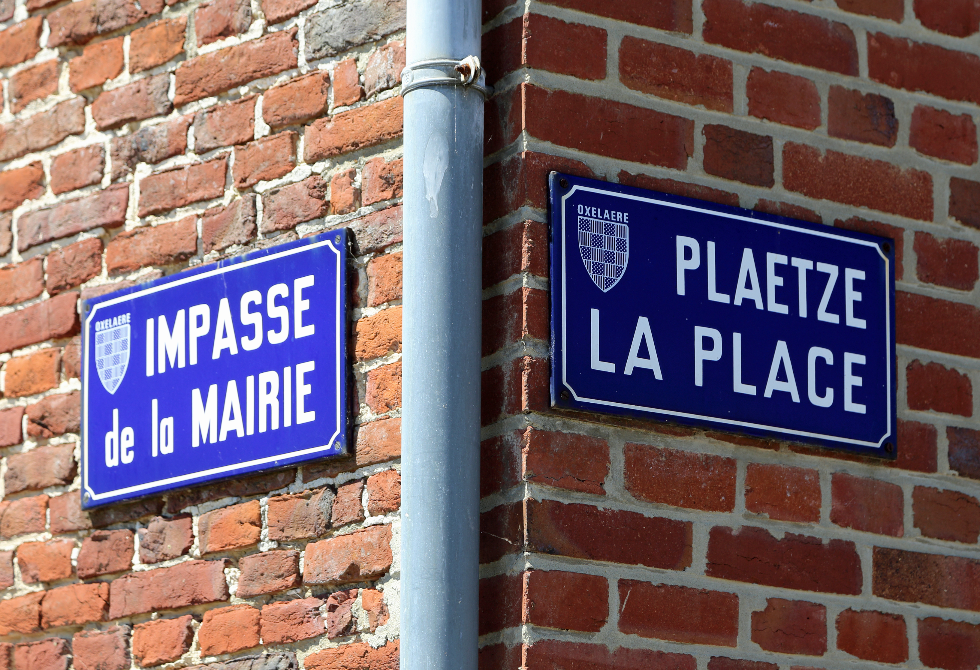 Oxelaëre (département du Nord, France): street signs; right: bilingual sign Flemish-French